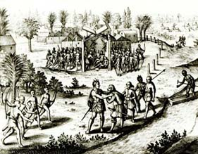 etching of Ralph Hamor visits Powhatan, 1619